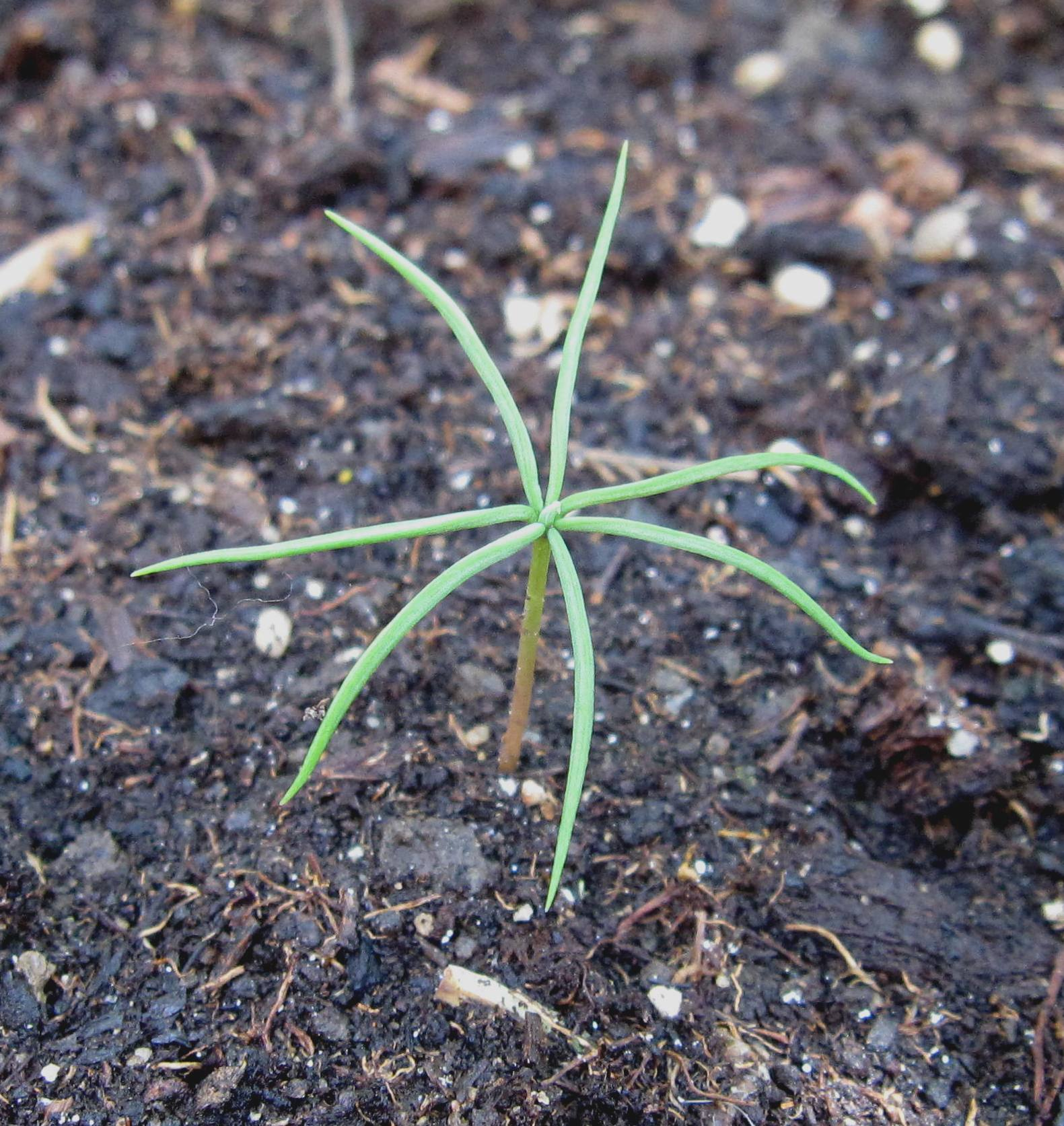 Two-weeks-old cotyledons of Douglas-fir in Getafe (Central Spain).